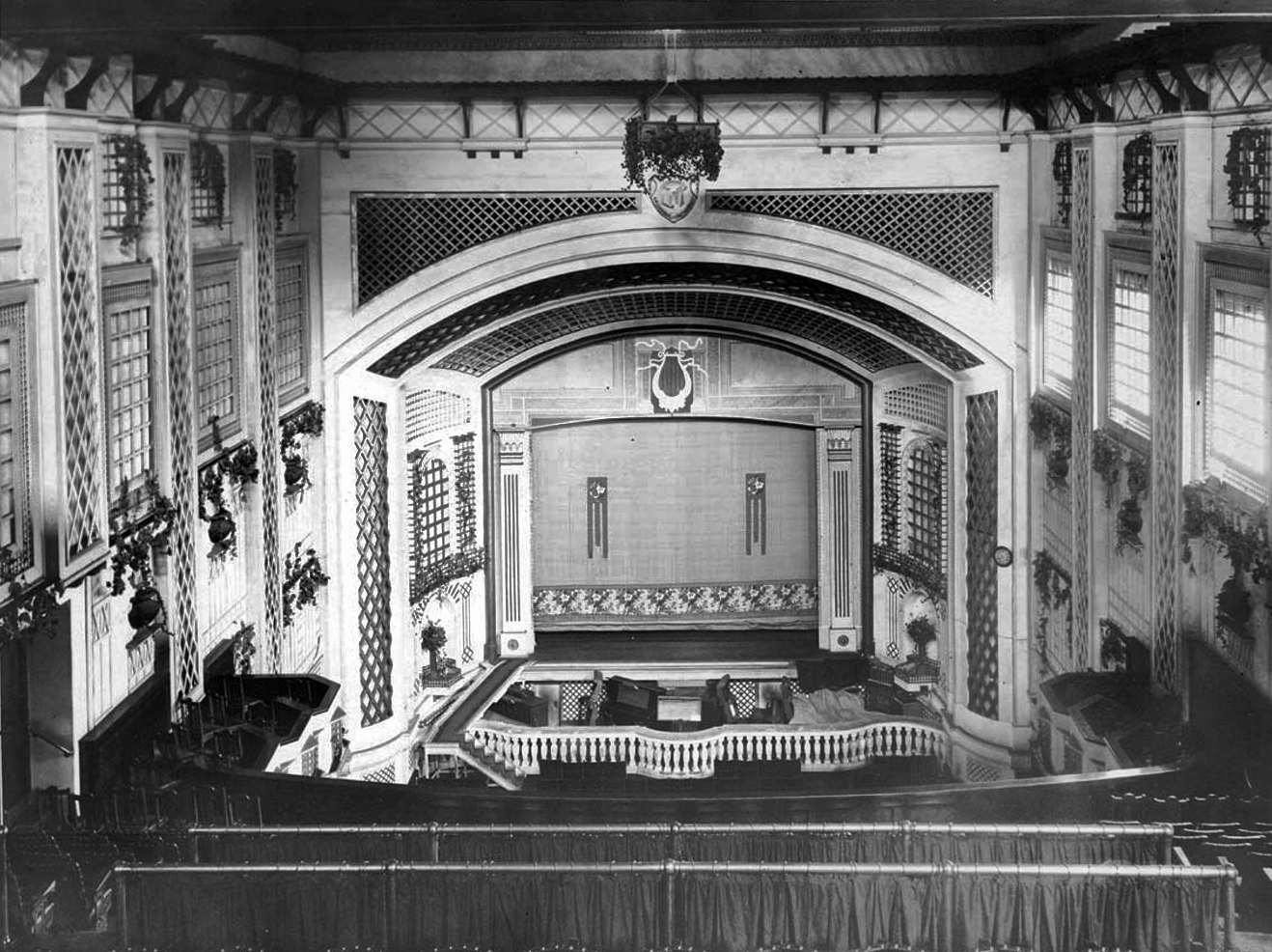 Interior view of the Lyric Theatre, George Street, Sydney in the 1920s.